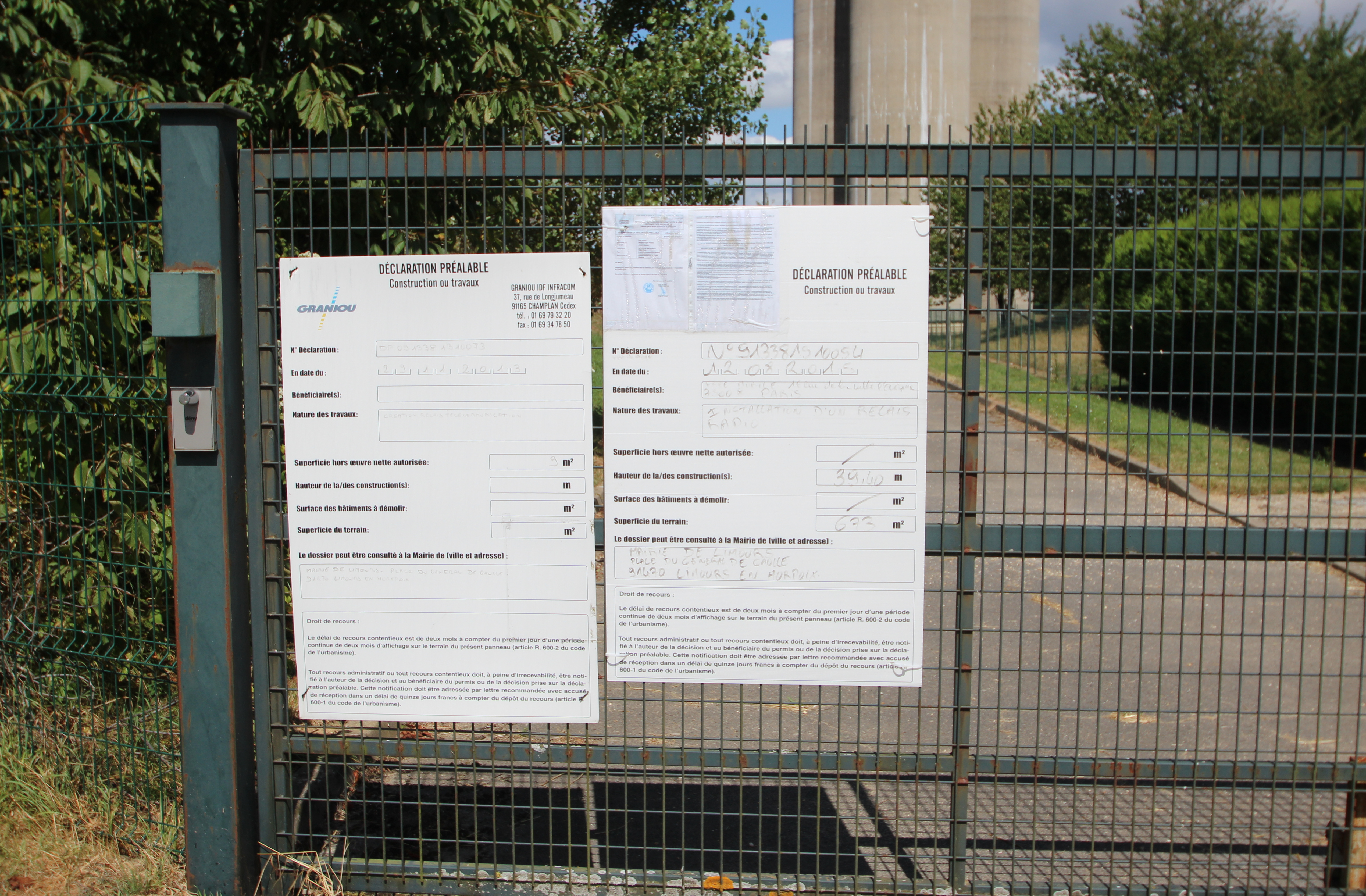 Water tower of Limours, France. Preliminary declaration of work. Object location48° 38′ 27.78″ N, 2° 03′ 37.66″ E